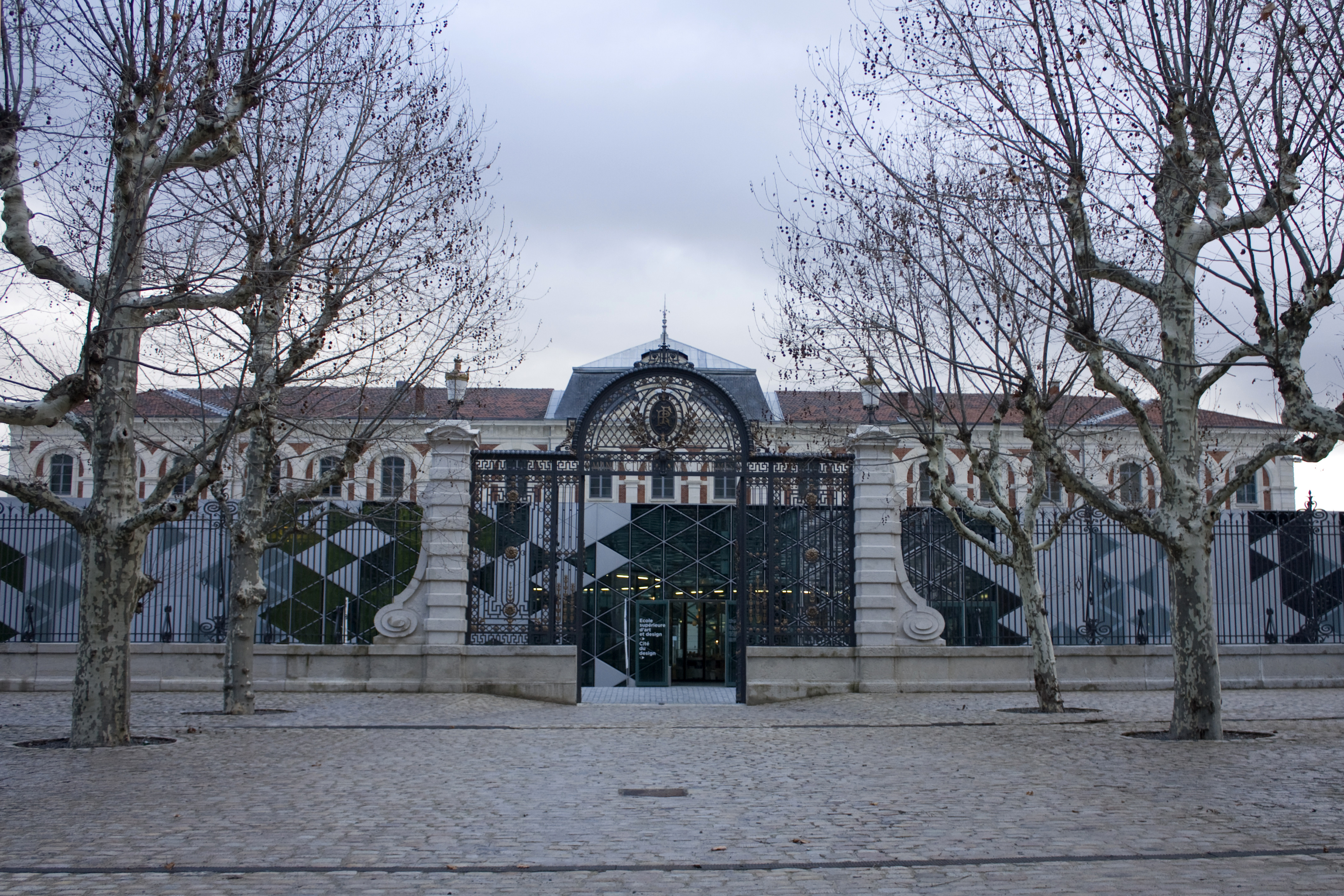 The building of the City of Design stretches before the building of the clock of The Manu spoiling the nice ordering from the esplanade, Avenue Bergson. To admire it, we have to go at the first courtyard of the old workshops.